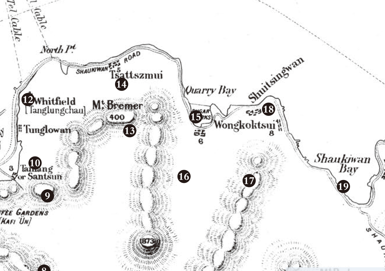 Portion of the Hong Kong map published in 1890, this part shows the Island East district